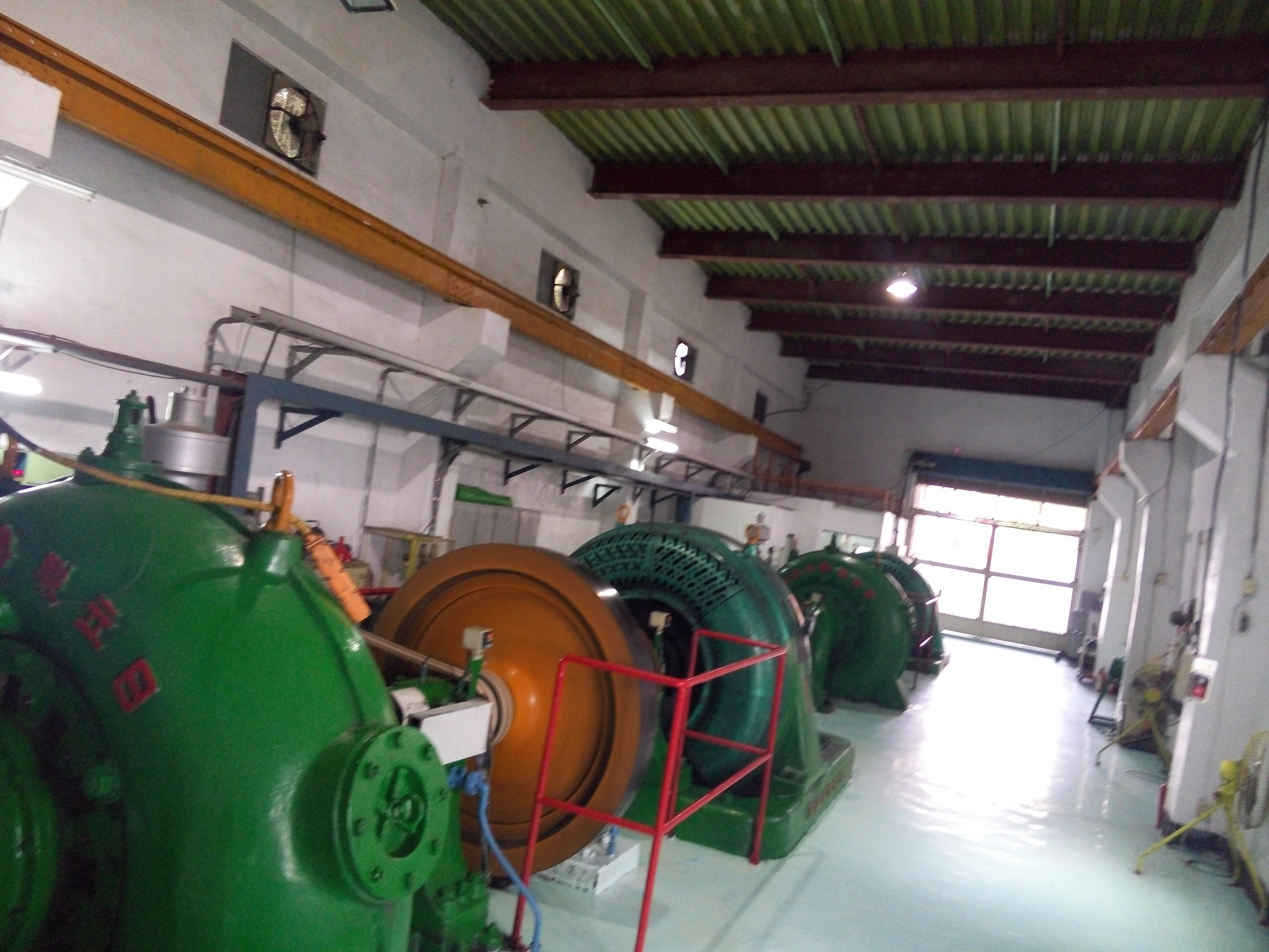 Banan Creek Small hydroelectric power plant